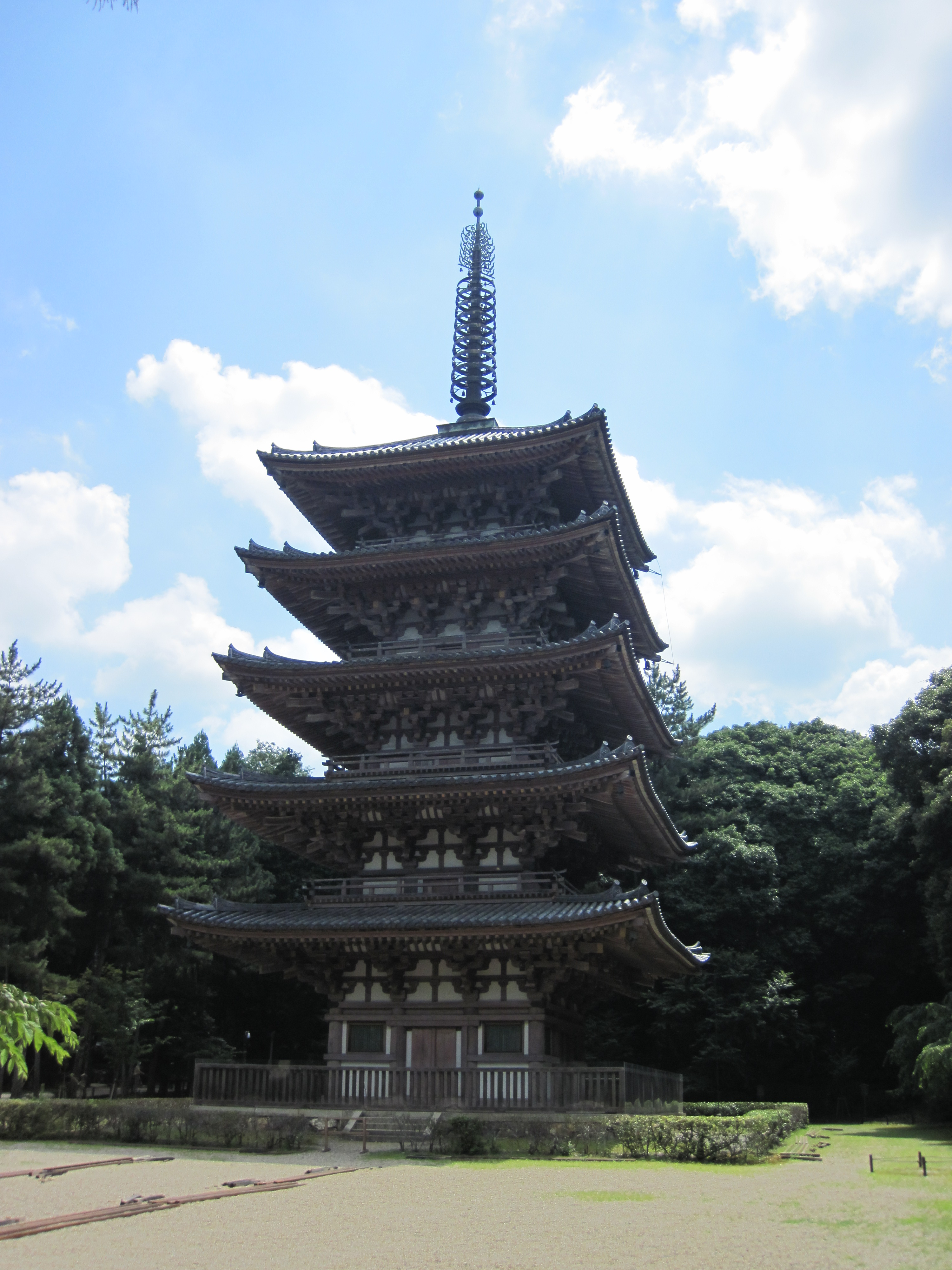 Daigo-ji National Treasure World heritage Kyoto 国宝・世界遺産 醍醐寺 京都